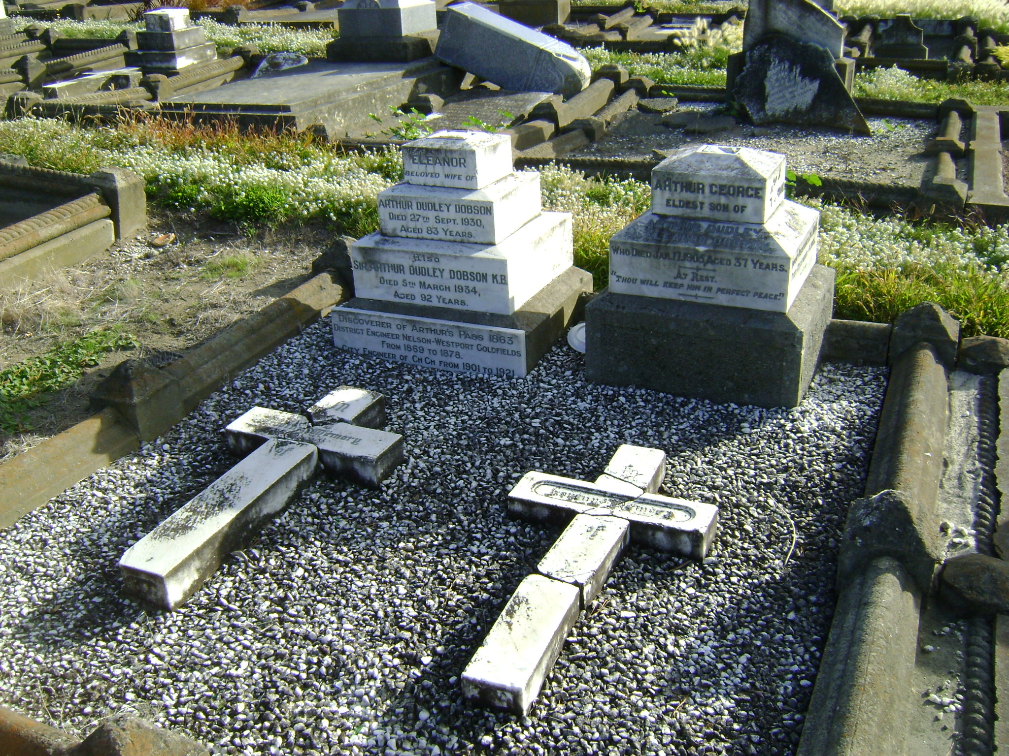 Grave stone of Arthur Dudley Dobson and family in the Linwood Cemetery.